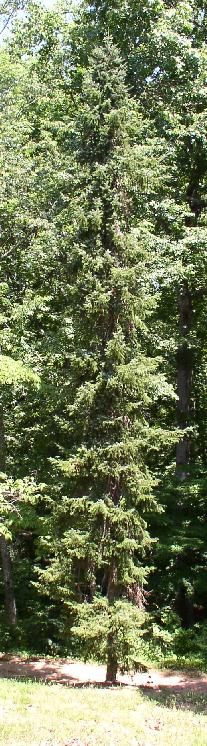 Serbian Spruce (picea omorika) at the SC Botanical Garden